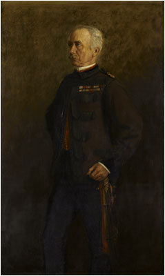 Portrait of Garnet Joseph Wolseley, 1st Viscount Wolseley (1833–1913) Field Marshal; oil painting